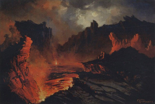 Kilauea, oil on panel painting by Charles Furneaux, 13.5 x 19.9 in.